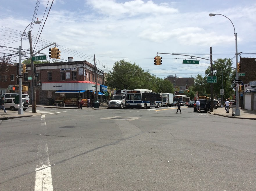 The intersection of Corona Av, 108 St, and 52 Av in Corona, Queens, New York.